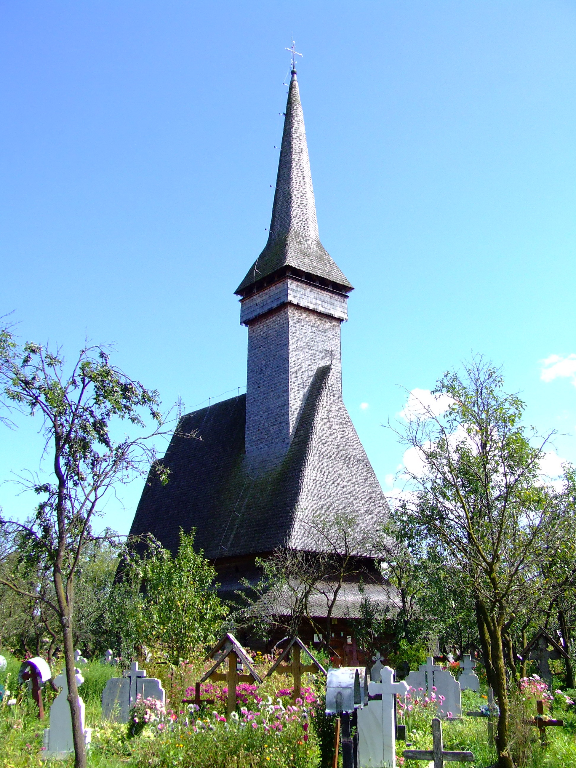 the „lower“ wooden church in Ieud, Romania